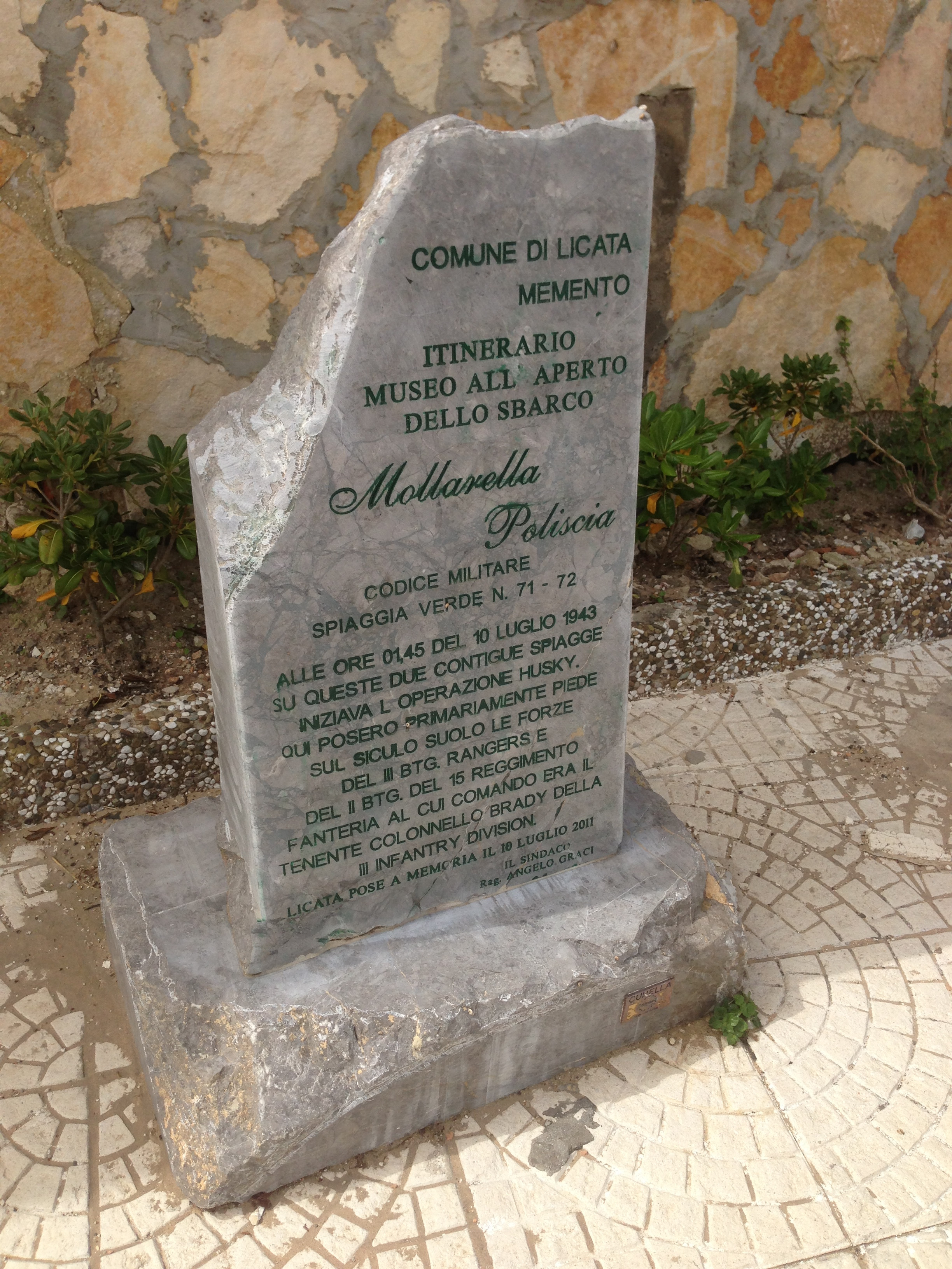 Italian memorial to the Allies for the invasion of Sicily during Operation Husky, July 10th, 1943.